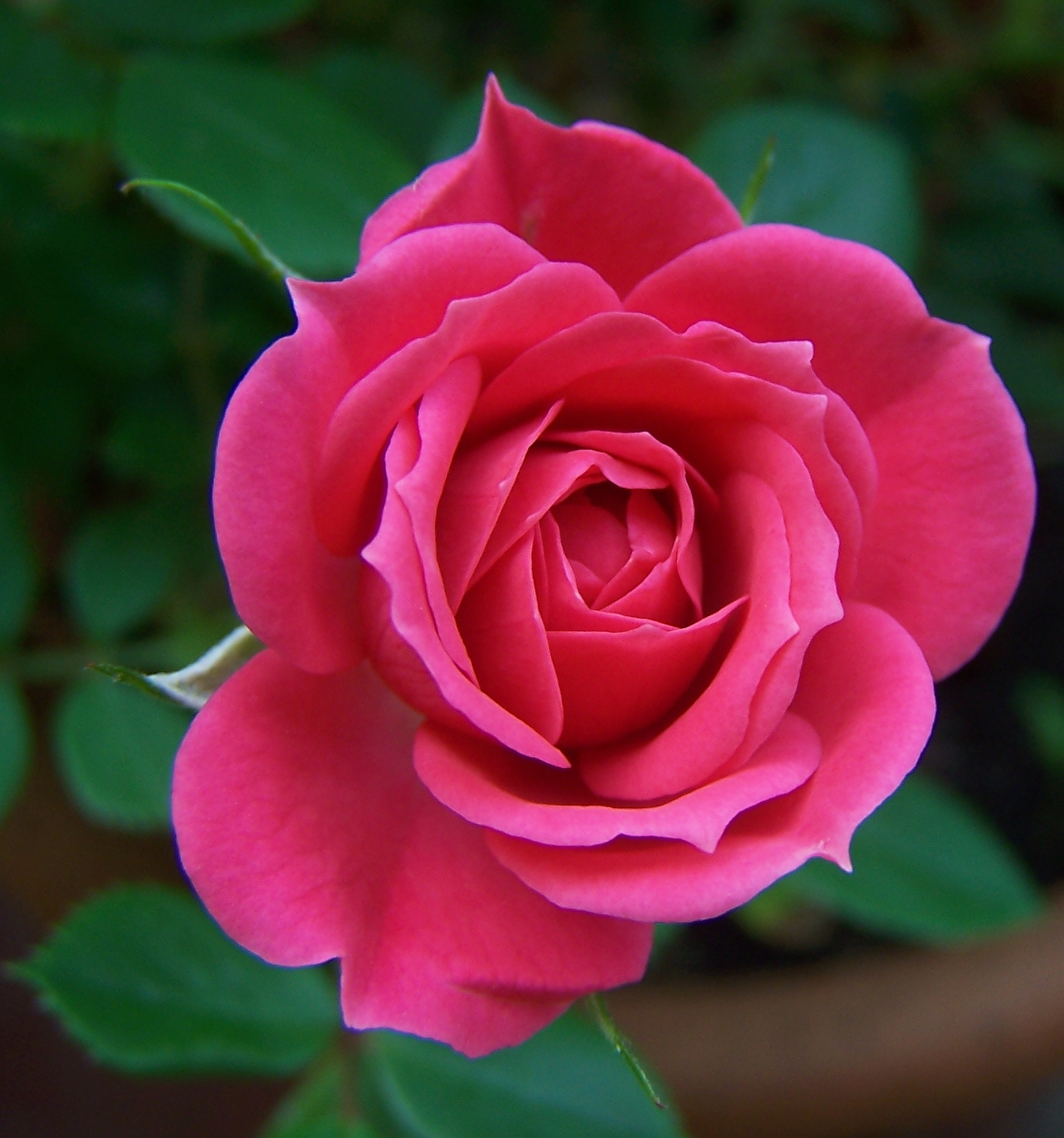 Miniature rose, cropped version of image:Miniature rose gnangarra.jpg cropped on 1st June 2006.